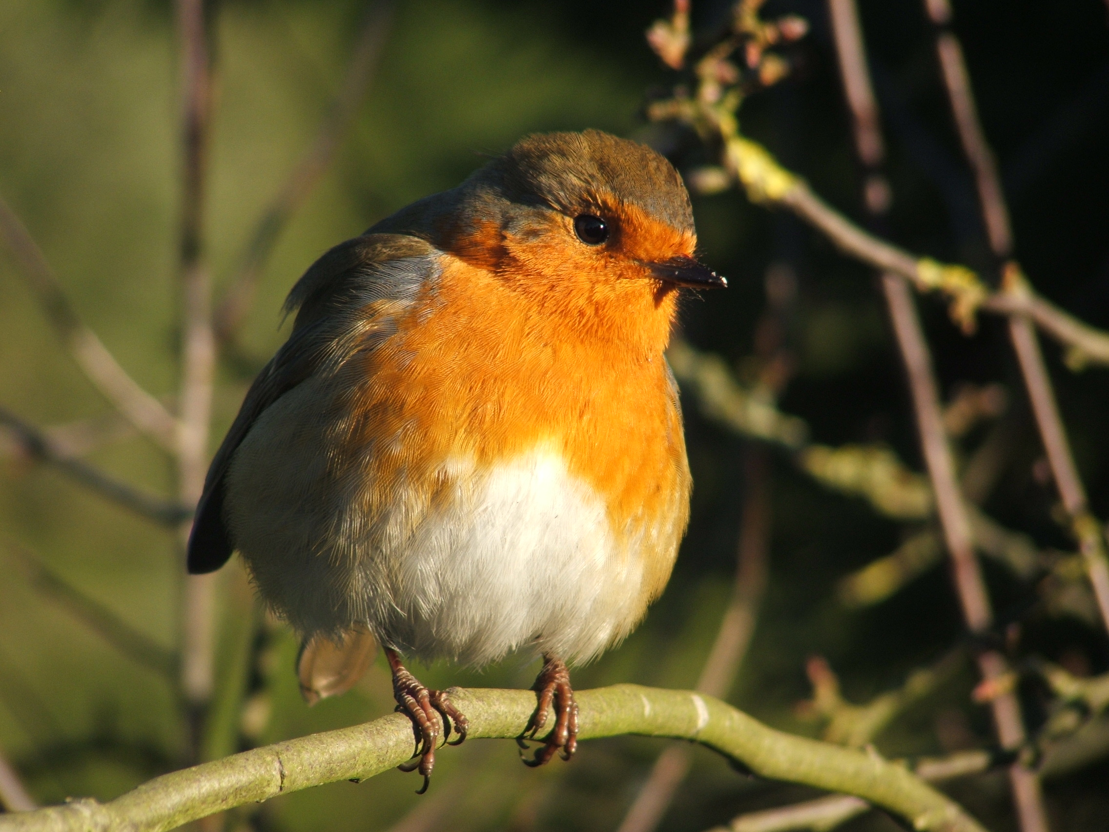 The European Robin (Erithacus rubecula)